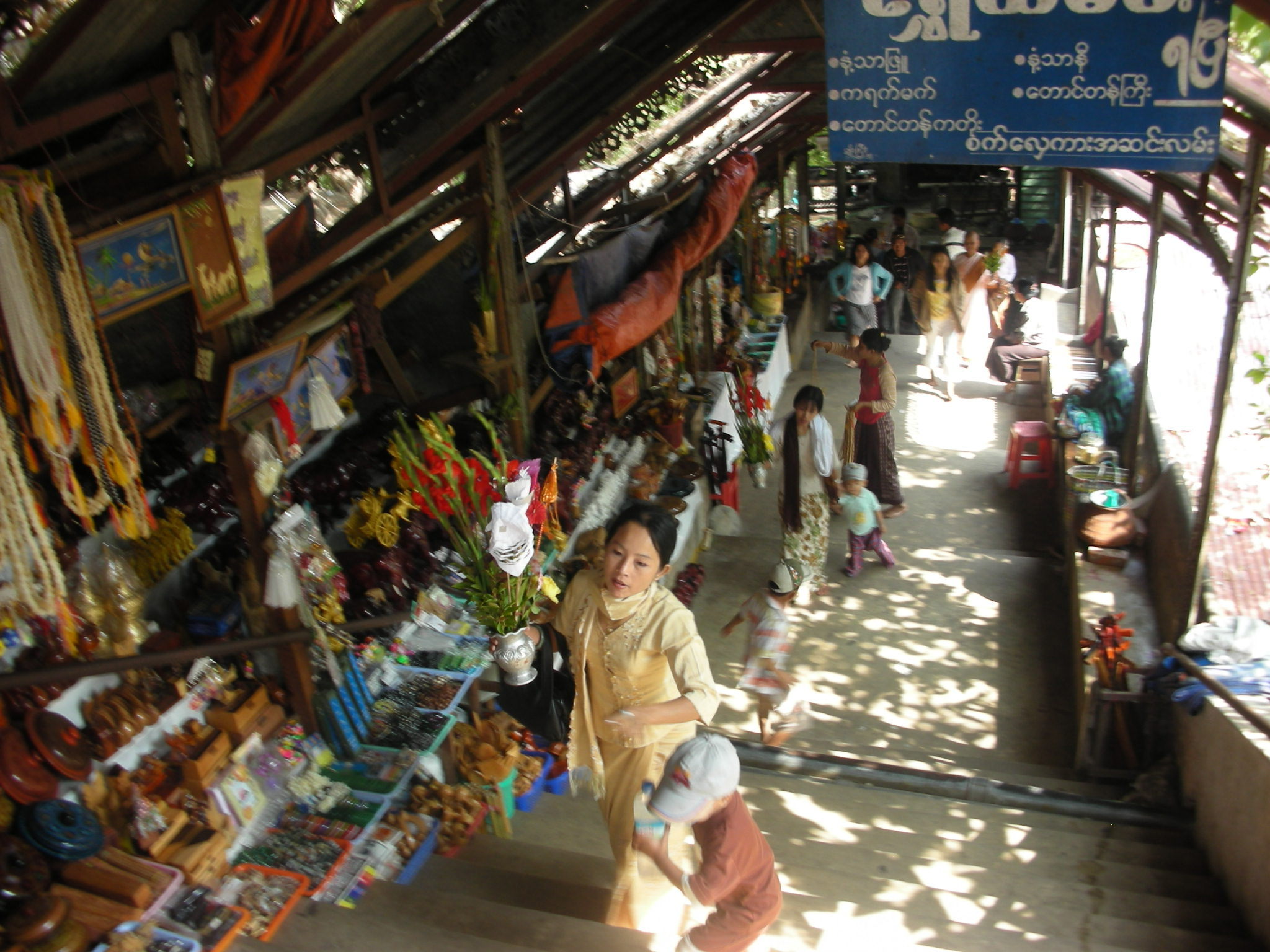 Up the saungdan - covered stairway at Mandalay Hill